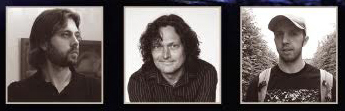 Gourishankar - The World Unreal band